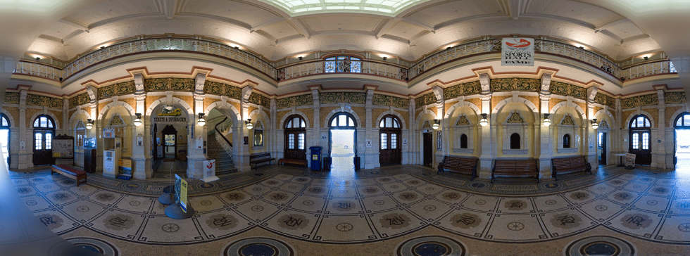 360° Panorama: Railway Station from inside